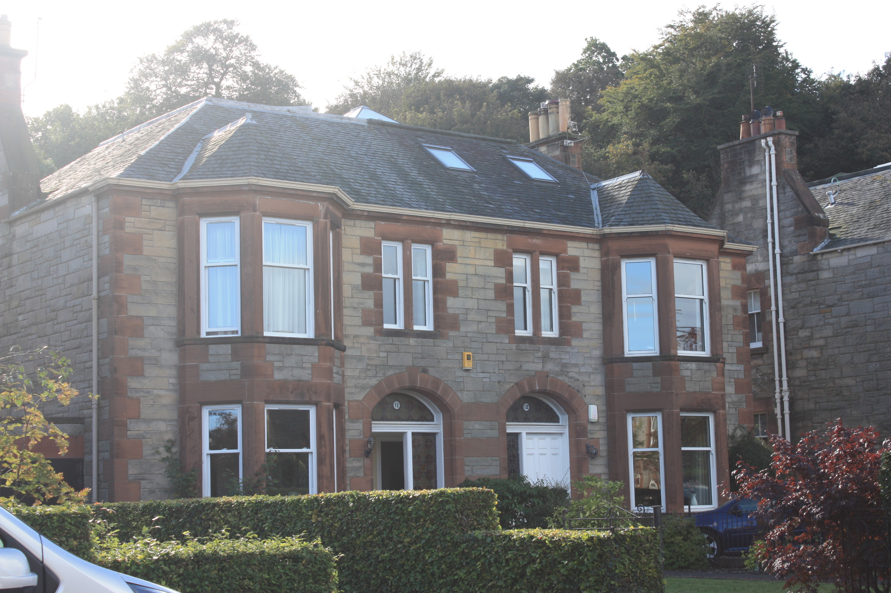 11 and !2 Keith Crescent, Edinburgh